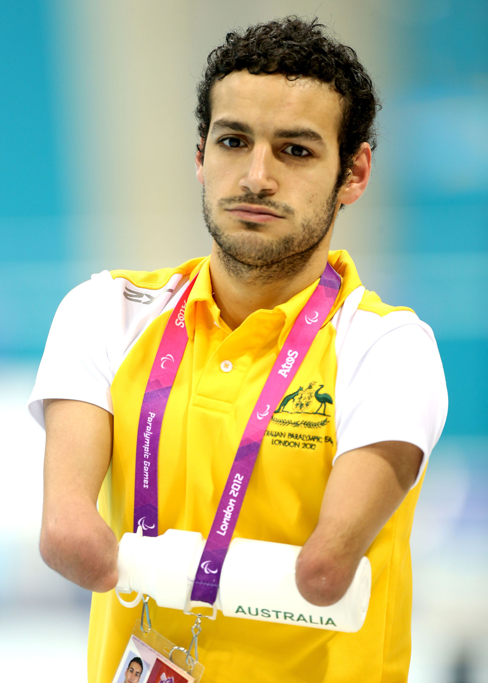 Photograph of Australian Paralympic team member Ahmed Kelly at the 2012 Summer Paralympic Games in London